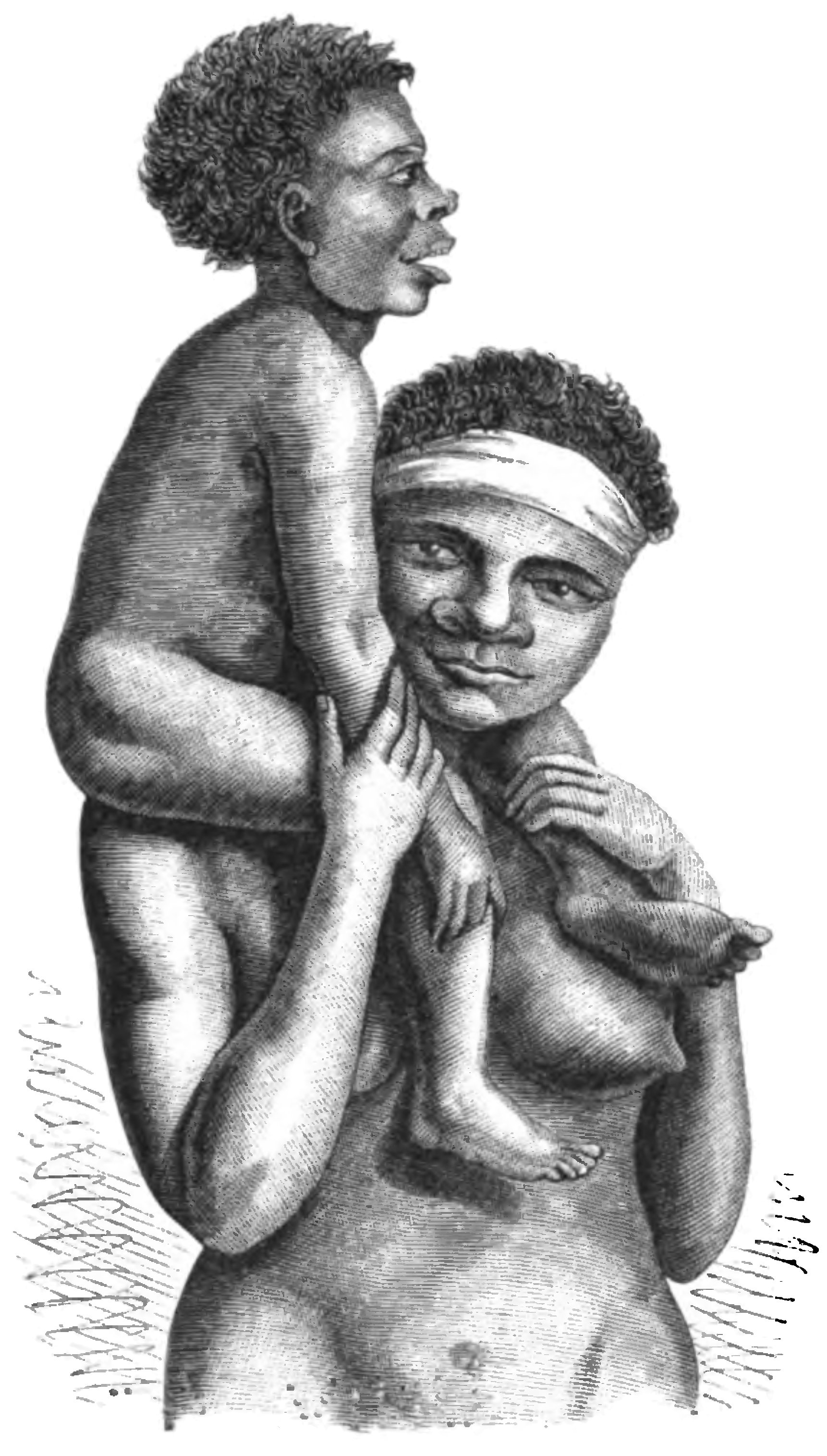 Tasmanian Mother and Child